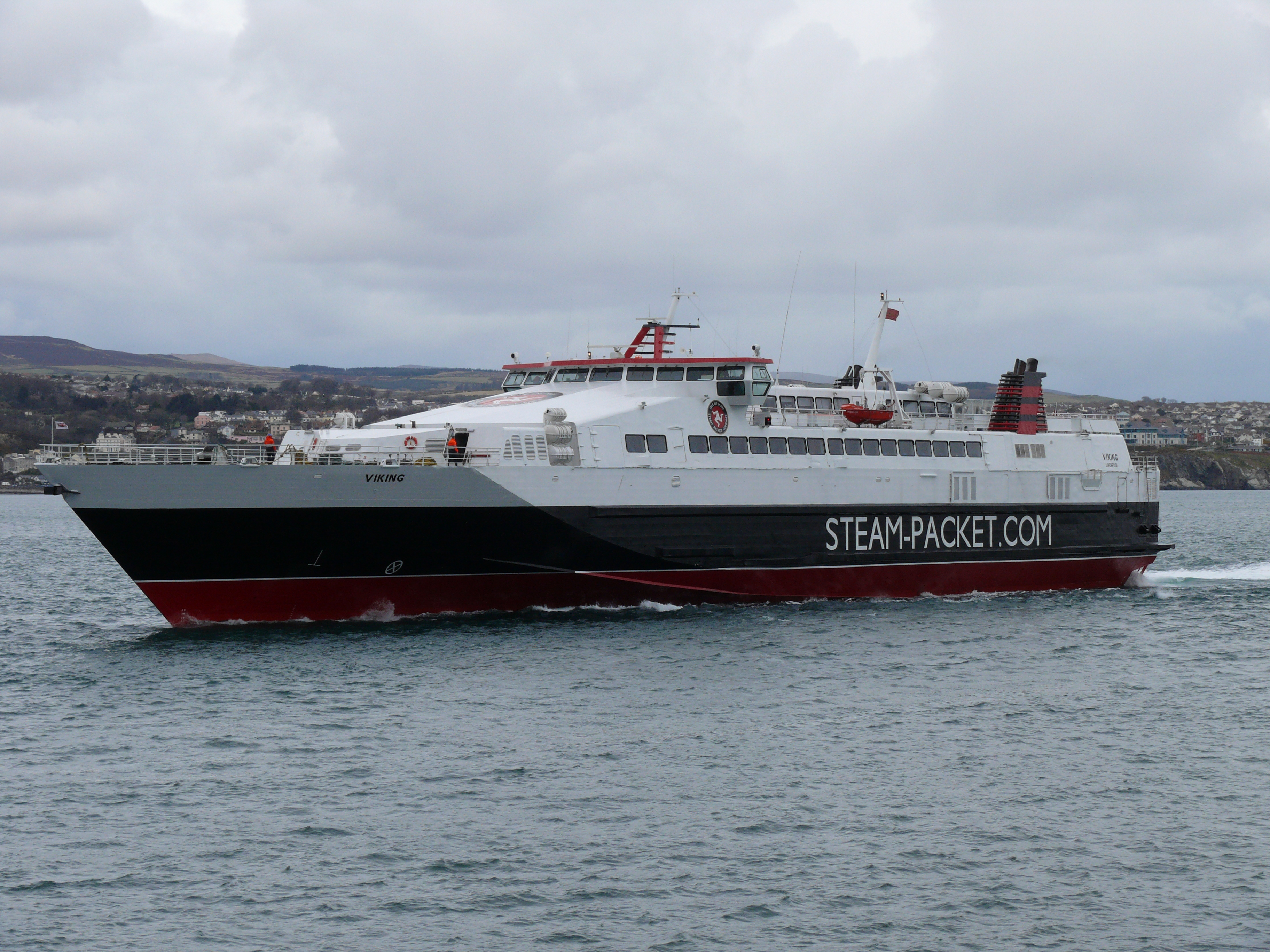 HSC Viking Arriving in Douglas, Isle of Man